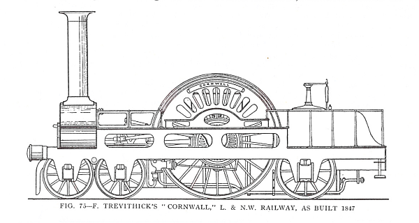 Locomotive 'Cornwall', as built in 1847 Category:Steam locomotives line drawings Category:Steam locomotives of the United Kingdom